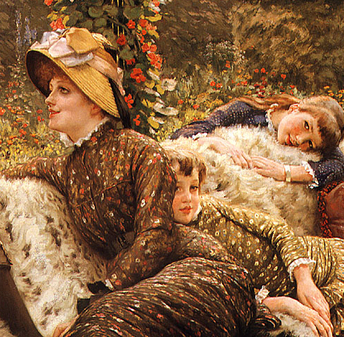 Detail of The Garden Bench